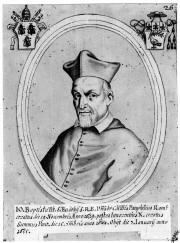 Cardinal Giovanni Battista Pamphili, future Pope Innocent X